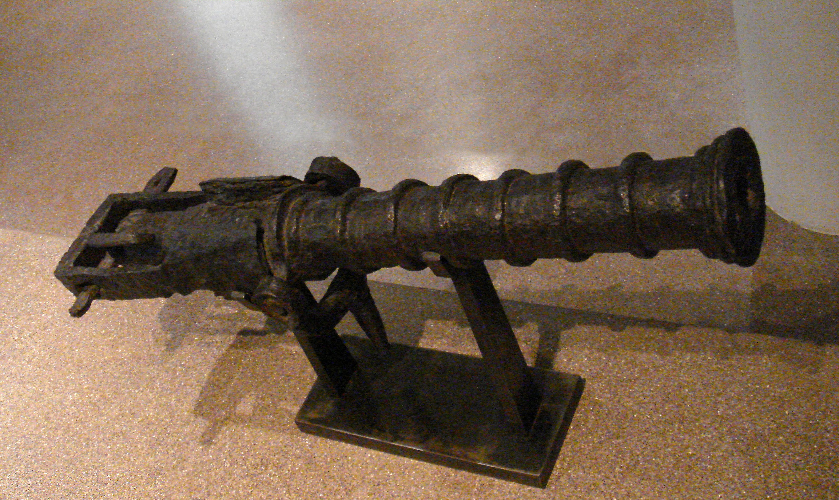 Perier_a_boite_en_fer_forge_Western_Europe_1410